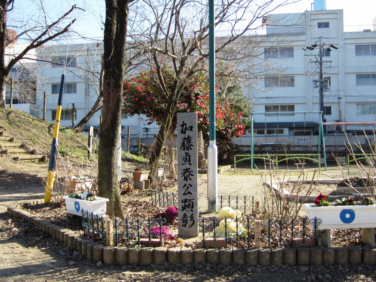 The commending stone monument at the site of Kurono Castle in Gifu, Gifu.